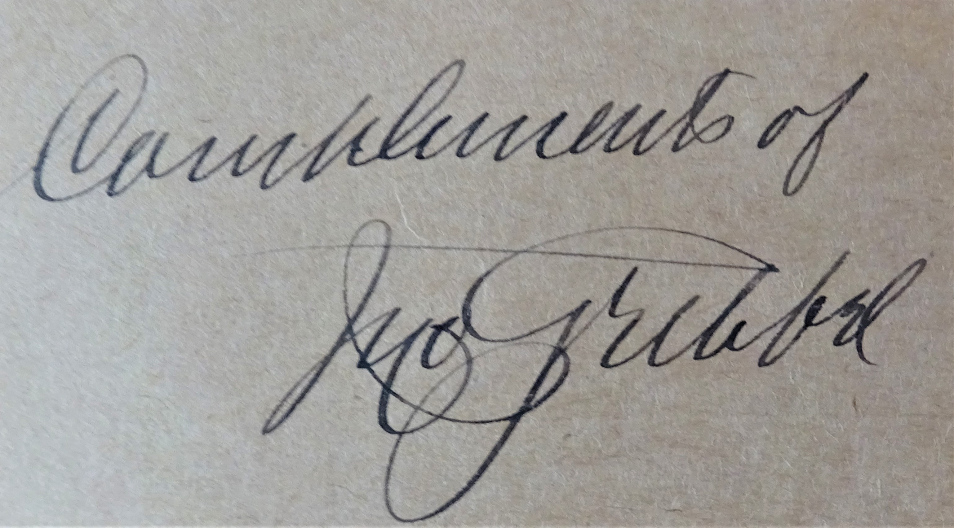 'Compliments' and Signature of John Gribbel. Insert from Glenriddell Manuscript facsimile volume 1. 1914.